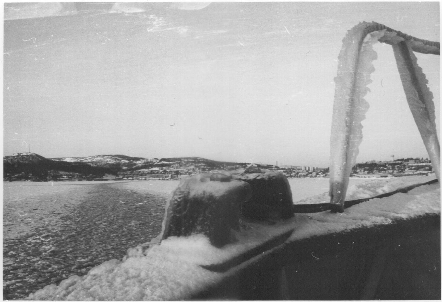 The bow of Swedish icebreaker Thule while going up the Ångermanälv